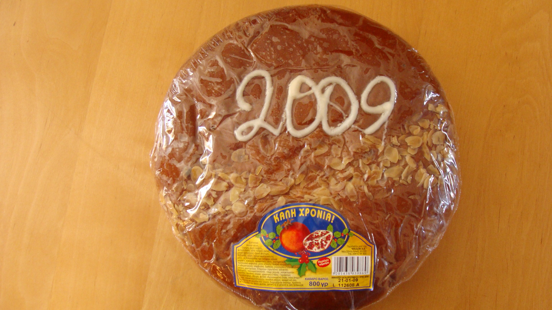 A vasilopita (greek: βασιλόπιτα) is a type of cake associated with the festival of new year. It brings good luck.